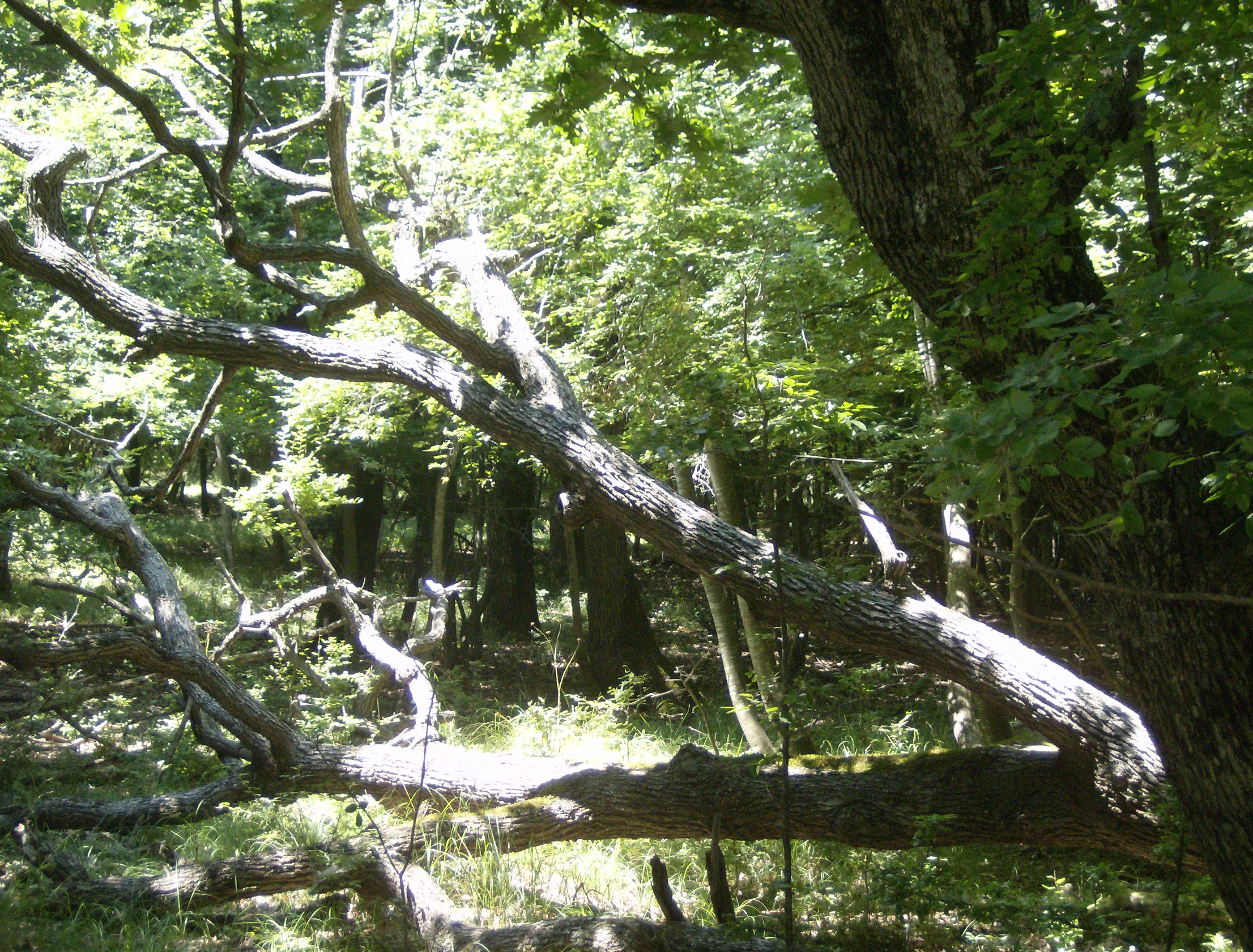 Ropotamo (Nature Reserve)